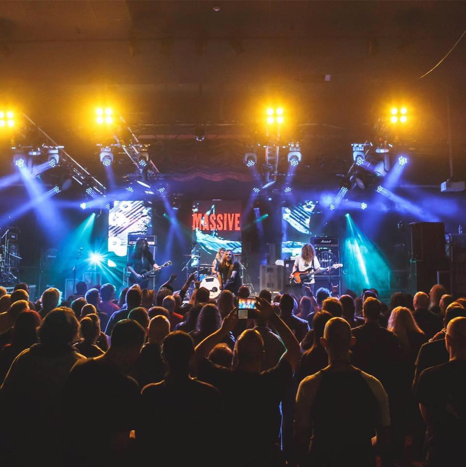 Live shot of the Australian rock band Massive